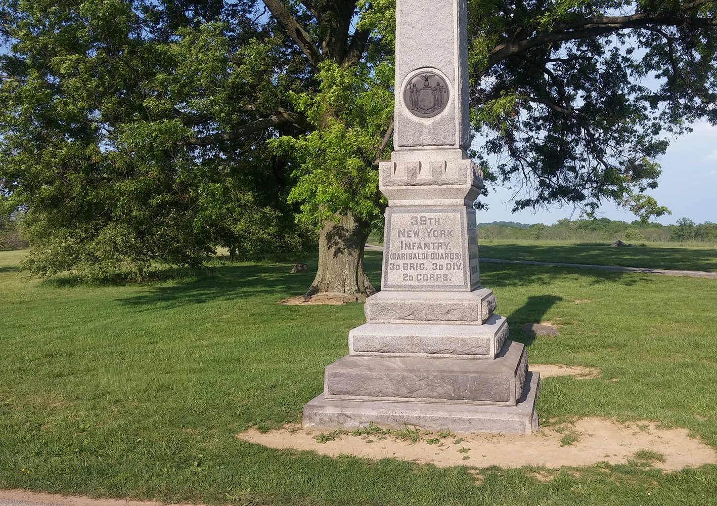 Monument of 39th New York Infantry regiment at Gettysburg